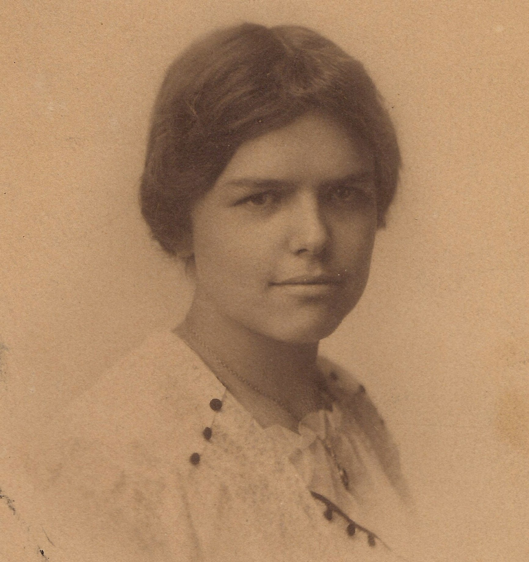 Photo of Theresa West (Elmendorf) at 22.